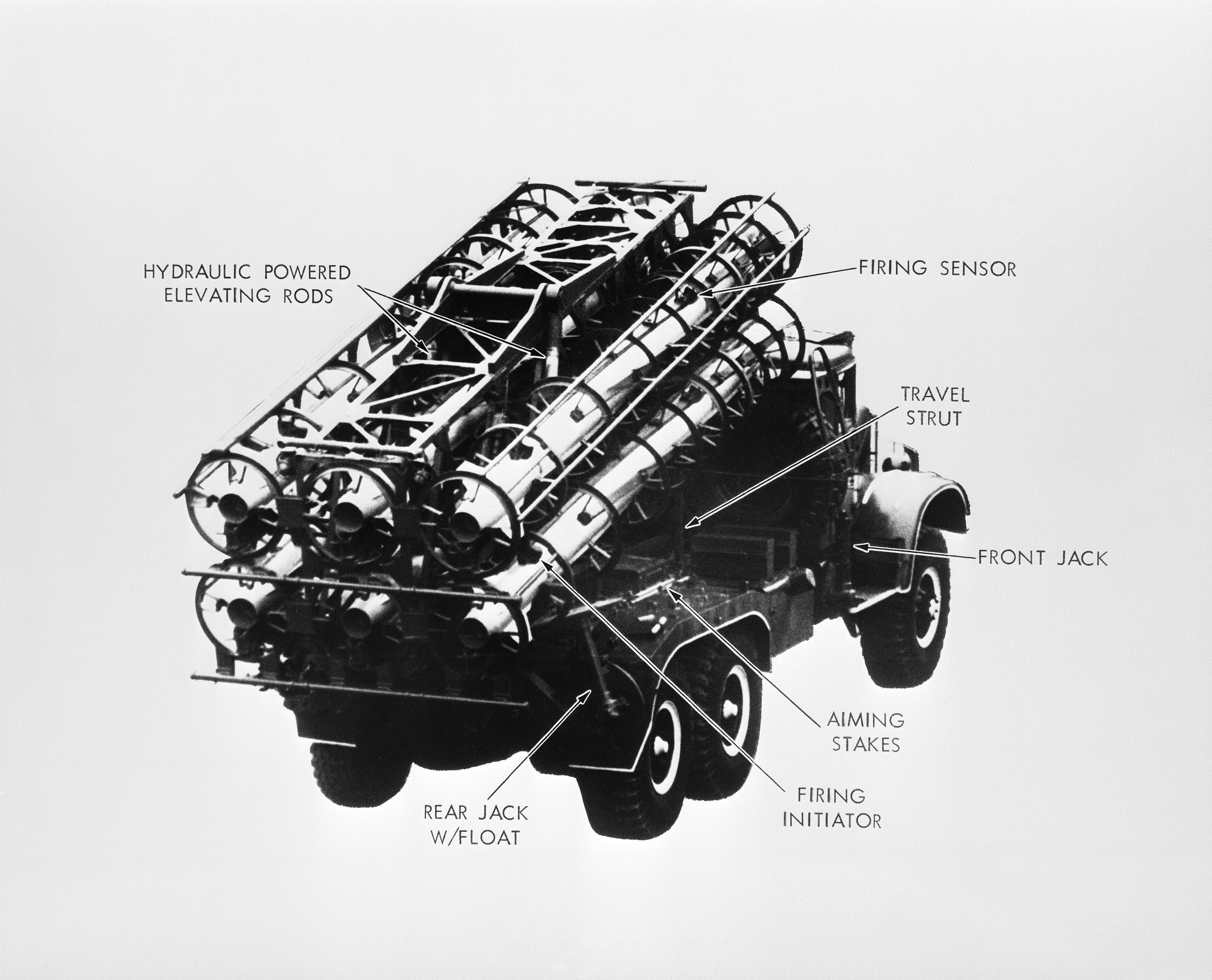 A historical copy negative of a KrAZ-214 Russian mobile rocket launcher 2K5 Korshun as seen from the rear.